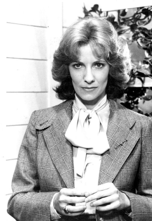 Photo of Betty Buckley from the television series Eight Is Enough.